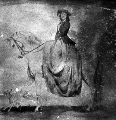 Marie Espérance von Schwartz (Elpis Melena) with her horse in Crete